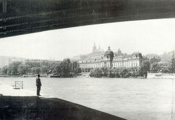 Picture of Straka Academy in 1914. Prague Castle can also be seen.